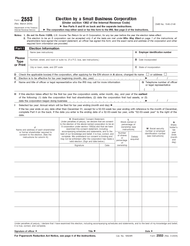 IRS Form 2553